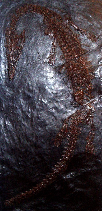 Skeleton of Askeptosaurus italicus, a diapsid reptile from Triassic of Besano, northern Italy